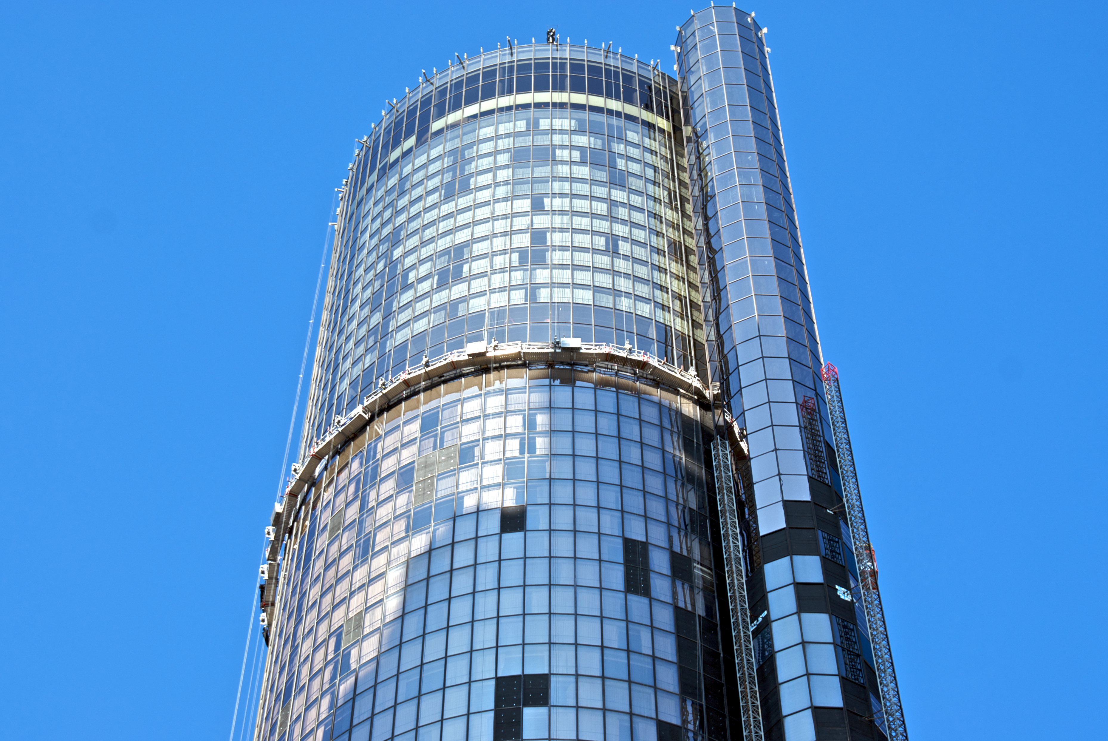 Status on the window repair at the Westin Peachtree Plaza as of March 16, 2010.